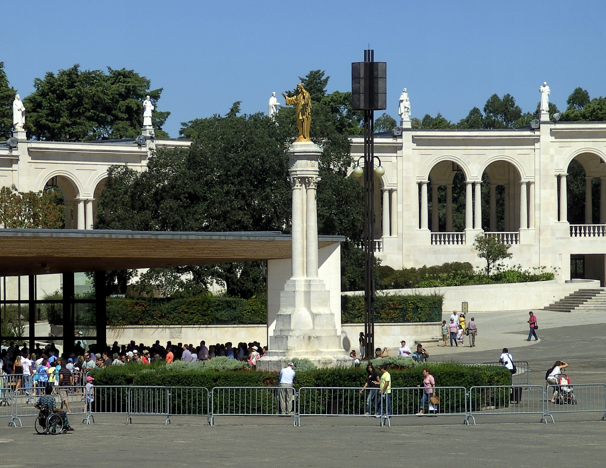 Statue of Jesus at the Santuário de Fátima.